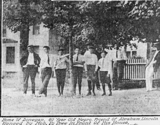 Two days after lynching.